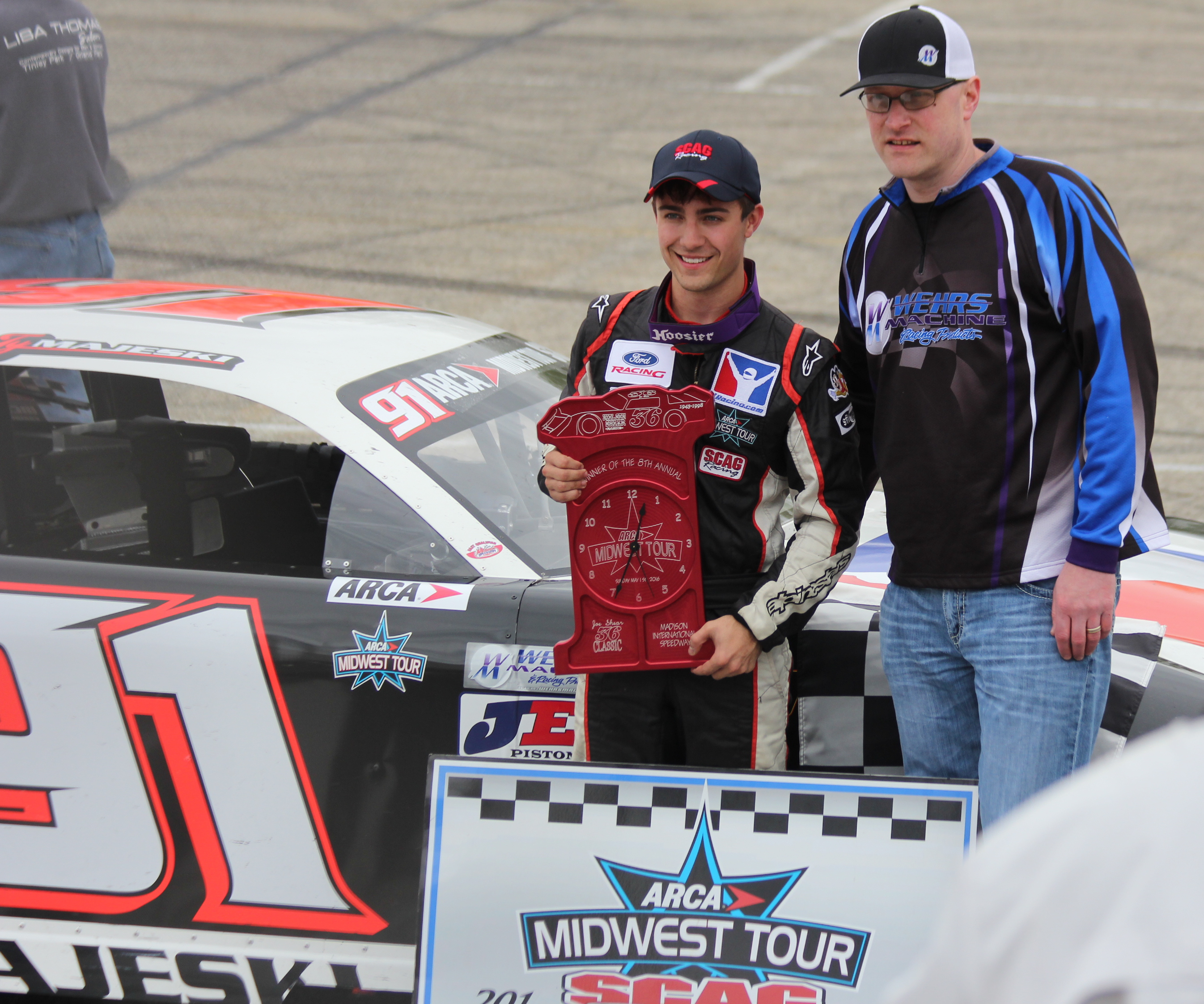 Winner Ty Majeski with ARCA Midwest Tour owner Gregg McKarns at Madison International Speedway.